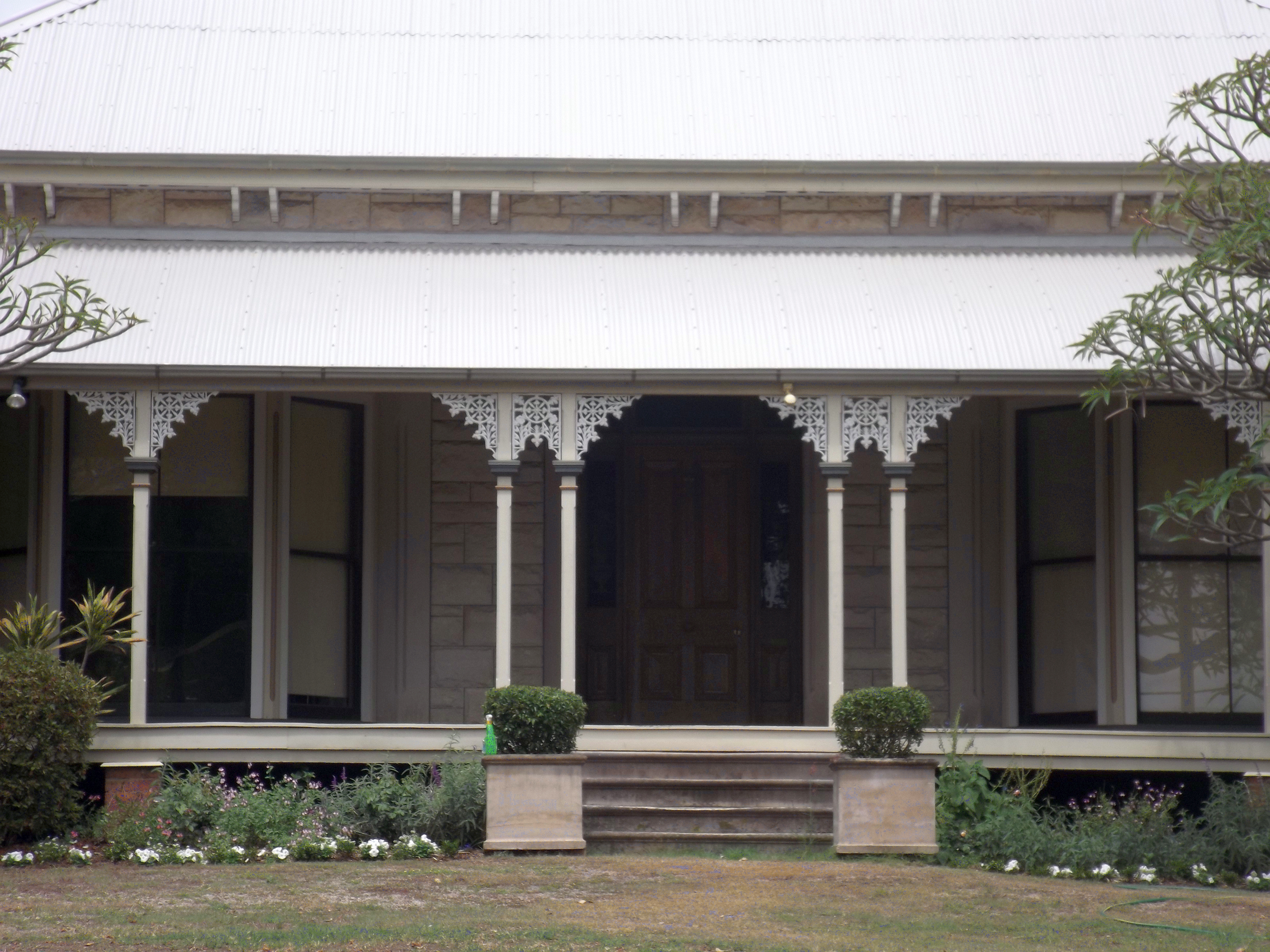 Photo of entrance to Kyeewa at East Ipswich, Ipswich, Queensland, Australia.